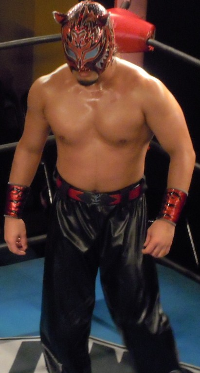 Japanese professional wrestler,Tigers Mask. Osaka Pro Wrestling Apr 16 2011 Osaka Minami Move On Arena.